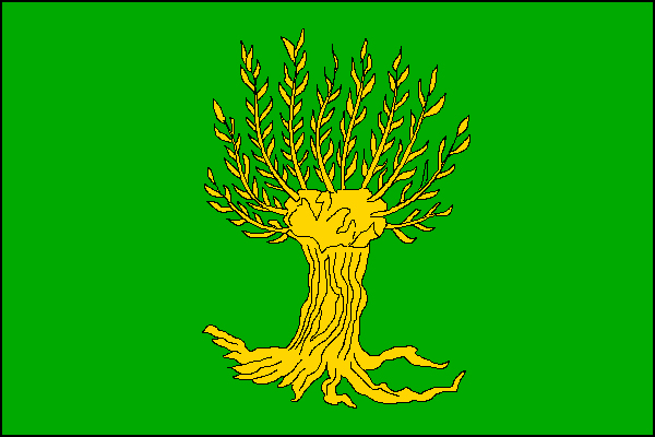 Municipal flag of Vrbice village, Nymburk District, Czech Republic.